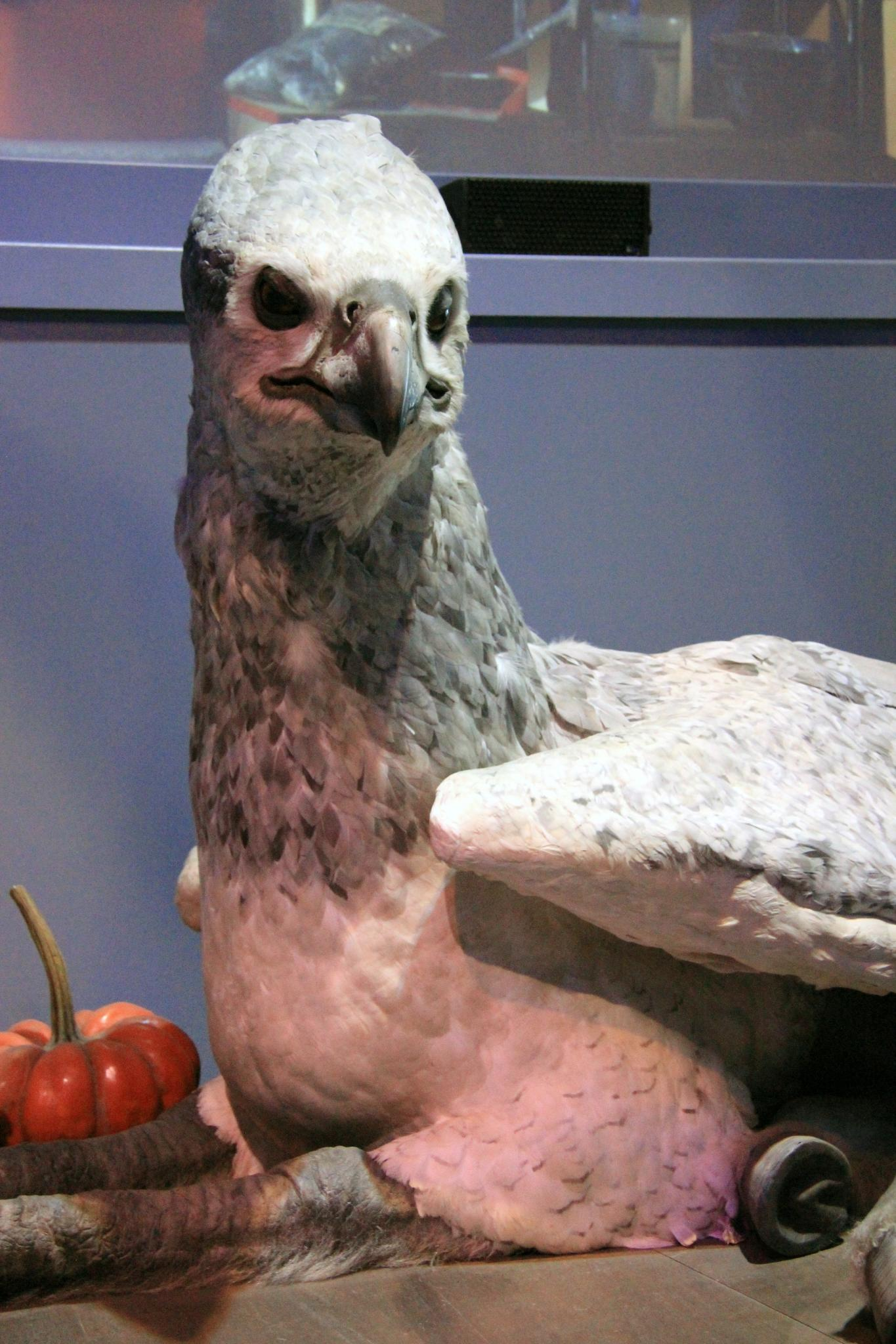 Warner Bros. Studio Tour London: The Making of Harry Potter.